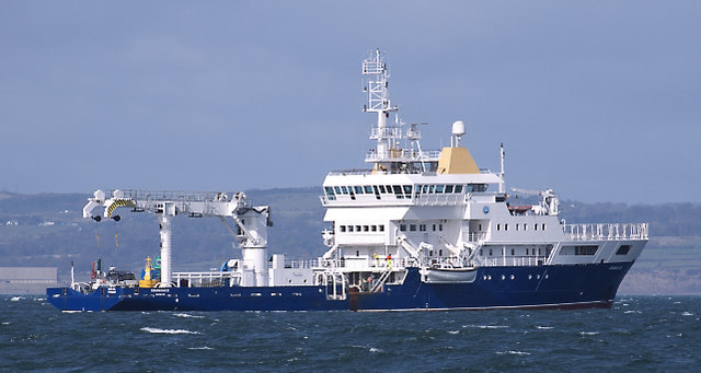 The ILV 'Granuaile' off Bangor The 'Granuaile' is a tender of the Commissioners of Irish Lights (CIL). CIL is the body that serves as the lighthouse authority for all of the island of Ireland (north and south) plus its adjacent seas and islands. As the Irish Lighthouse Authority it overseas the coastal lights and navigation marks provided by the local lighthouse authorities. 'Granuaile' was built at Galatz Shipyard, Romania in 2000 and is registered in Dublin. She has a length overall of 79.6 m, a beam of 15.99 m and a gross tonnage of 2625. for more information.